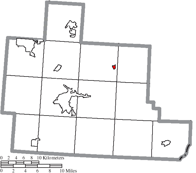 Map of the municipal and township boundaries of Athens County, Ohio, United States, as of the 2000 census, with the location of the village of Amesville highlighted. Township borders are shown only in unincorporated areas in order to differentiate incorporated and unincorporated areas more clearly.